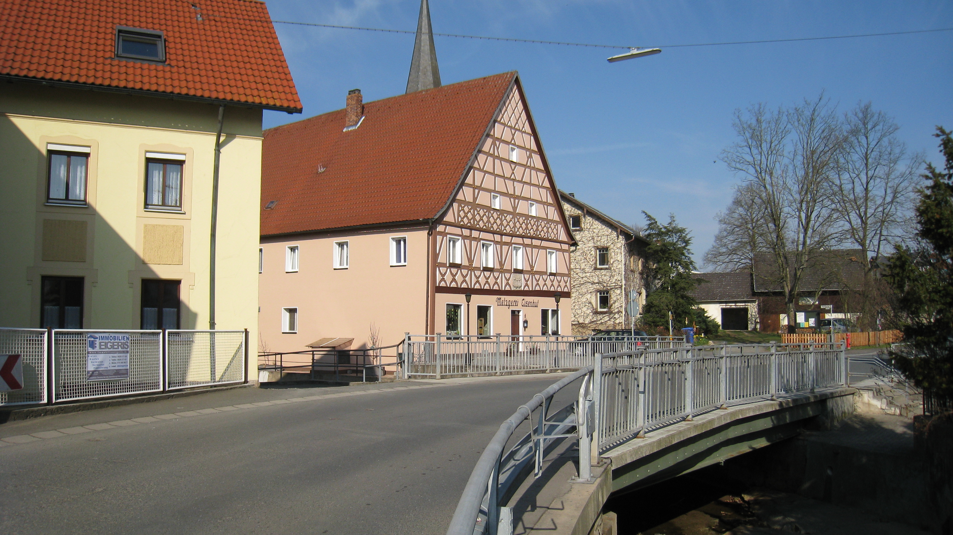 Ancient house (16th century), Bridge over 'Zentbach'